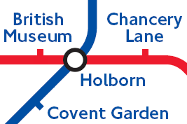 How the British Museum tube station may have looked on the London Underground Map if it was still open to passengers. (Image based on London Underground Map, created by User:McDRye on Feb 26th, 2006)